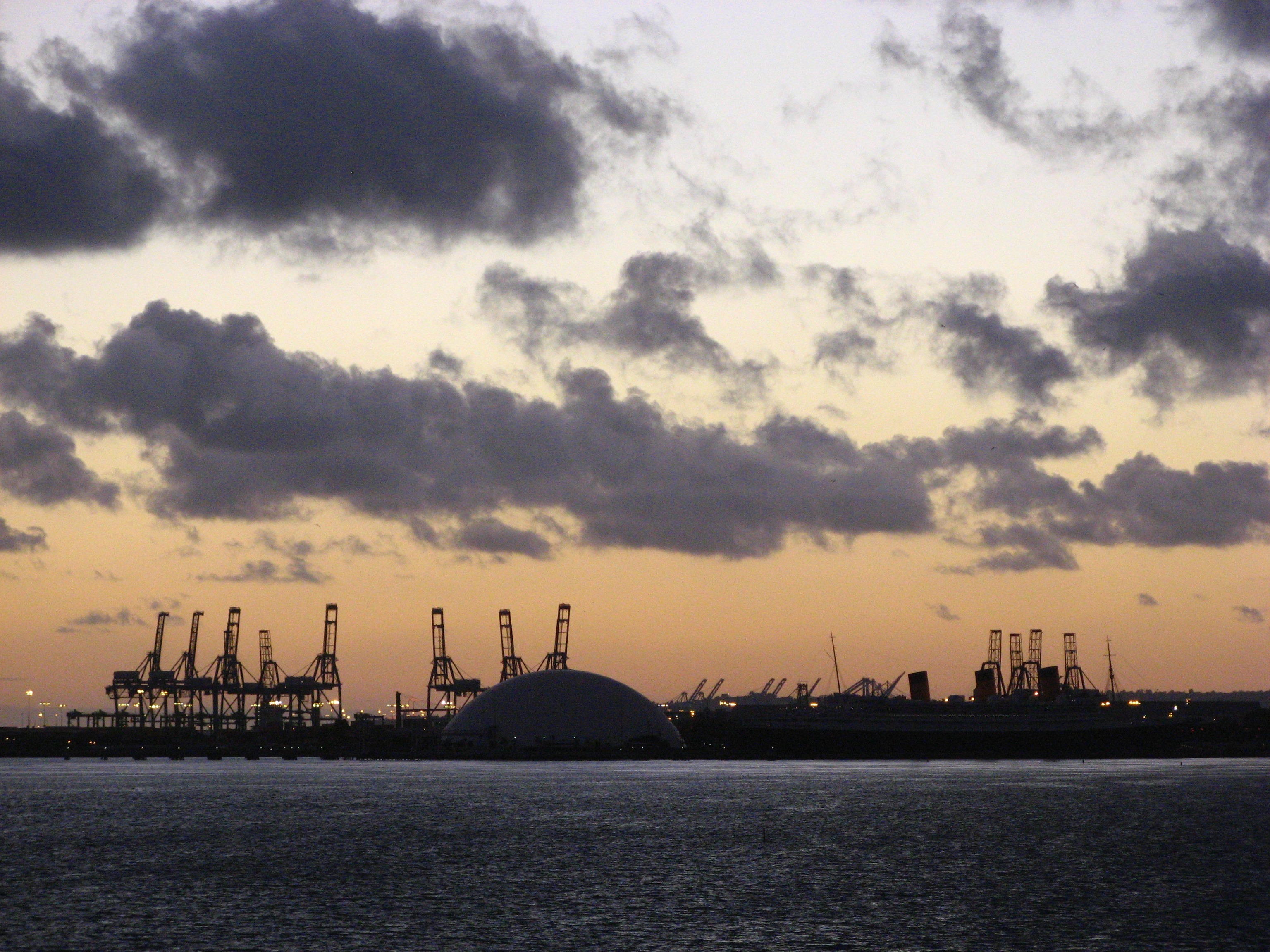 North-West facing view of the harbor and Port at Dusk